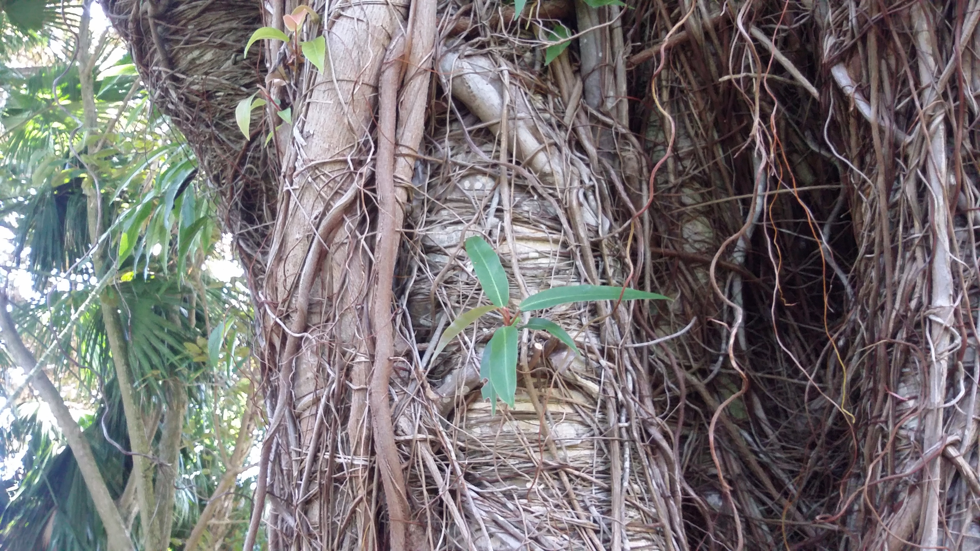 Coussapoa microcarpa in the Jardin Botanico Puerto de la Cruz in Tenerife